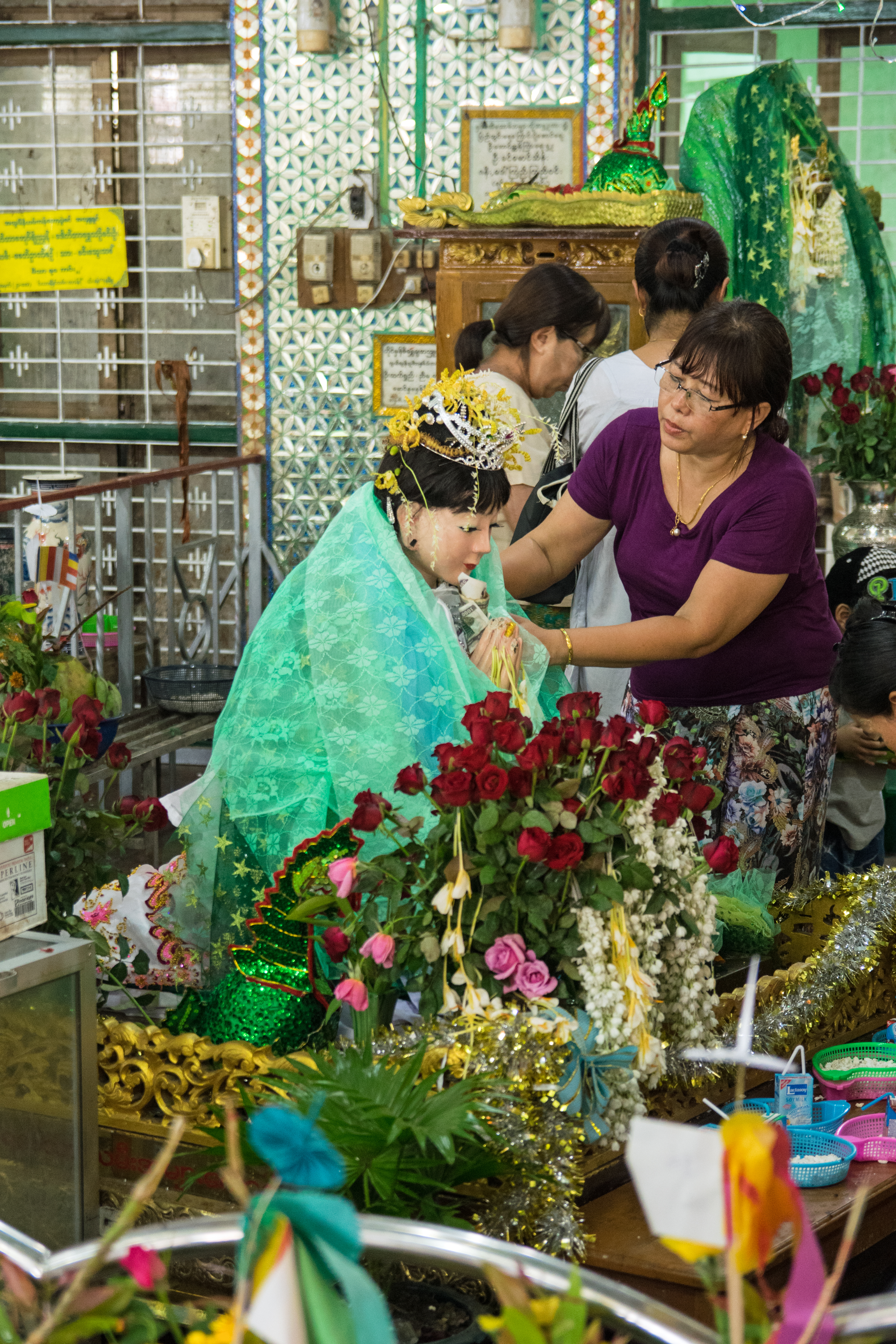 Mya Nan Mwe statue